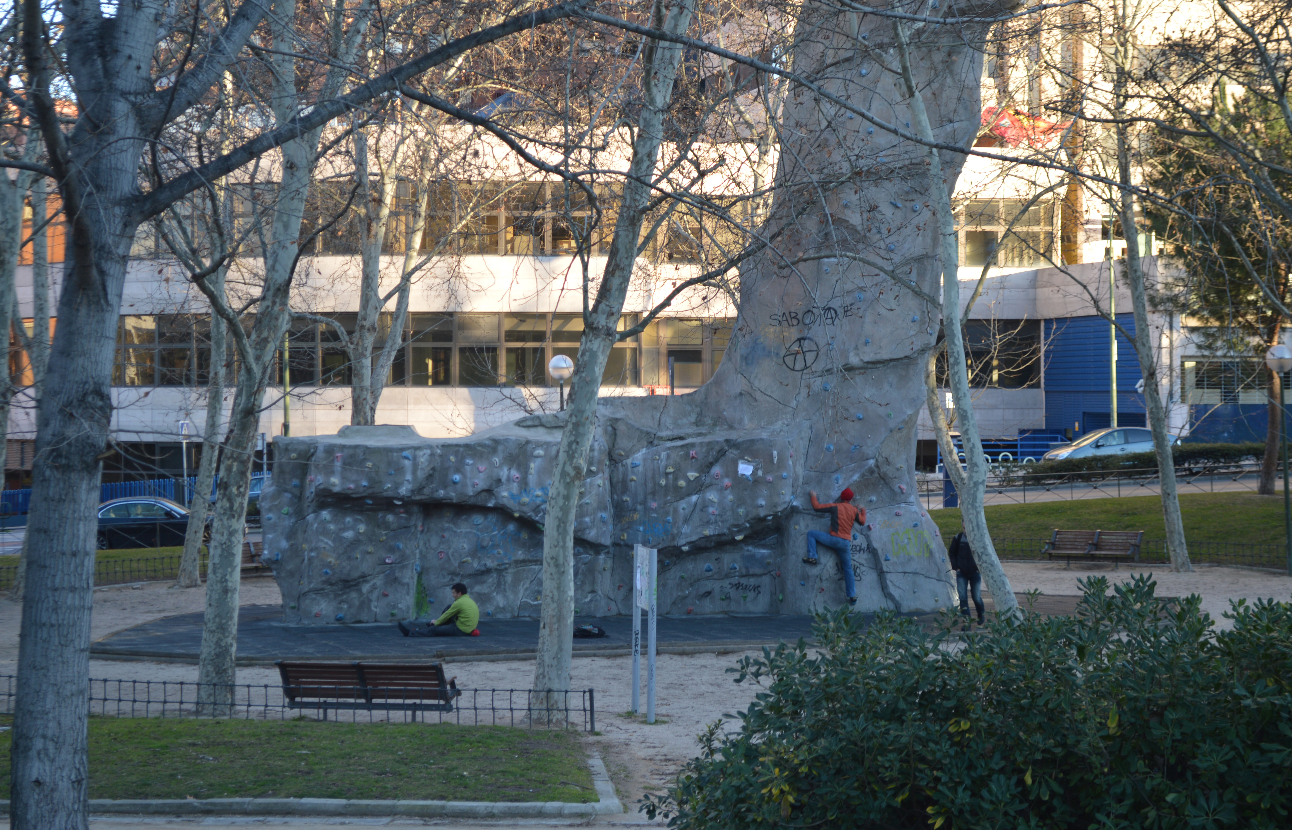 The climbing wall is one of the few in Madrid in allowing free access. It is located in the park of Rome, near Spain tower (commonly known as the lollipop) 5 minutes walk from the station Sainz de Baranda. It has a great surface to practice bouldering or climbing 5 way horizontal and vertical rope climb. These pathways have degrees from IV to 6b if you use resin dams, but also can increase the difficulty by using only the cracks in the concrete. Its height is 12 m with a climbable surface of 300m2. It was built in December 2006 by Top30, which also is responsible for its maintenance.